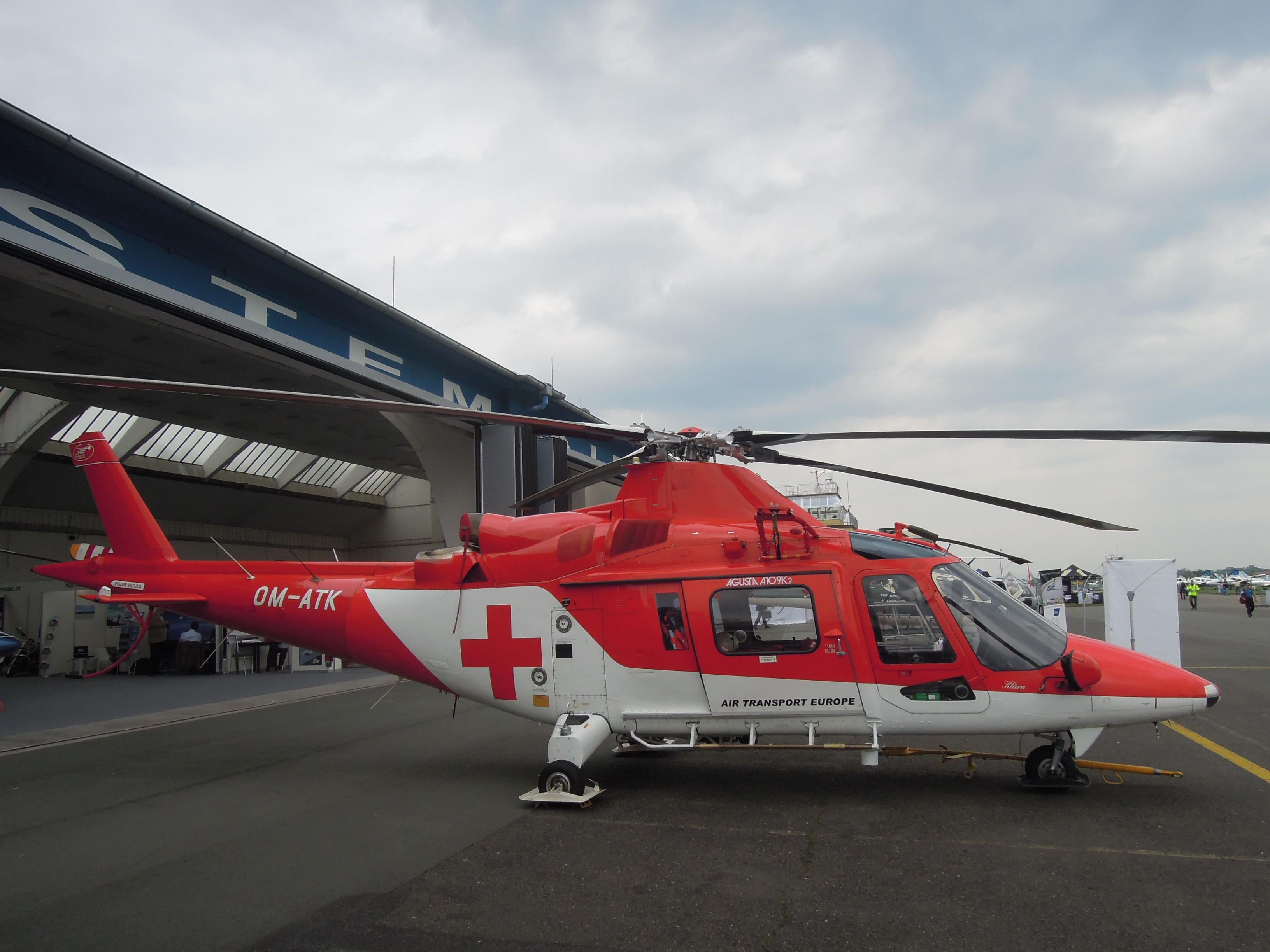 Rescue helicopter AgustaWestland AW109K2 of Air – Transport Europe company, photo was taken during the 2013 European Helicopter Show in Hradec Králové, Czech Republic